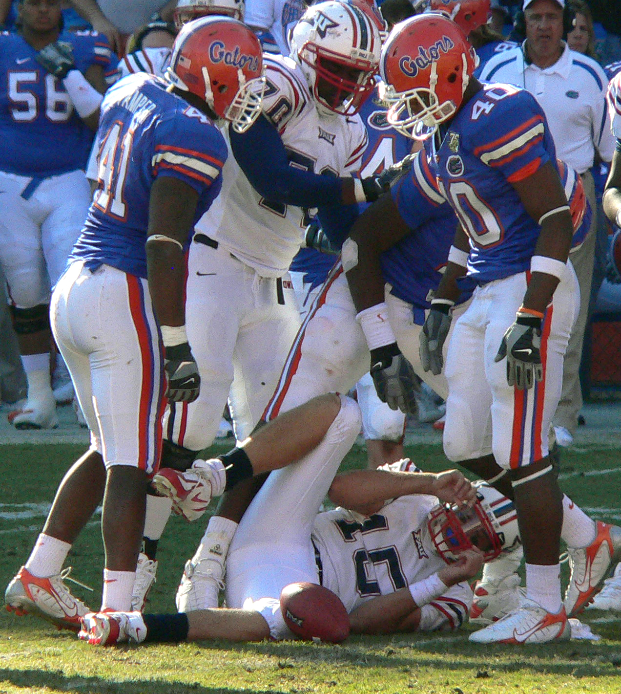 This is a picture of Florida football players standing around a Florida Atlantic football player.